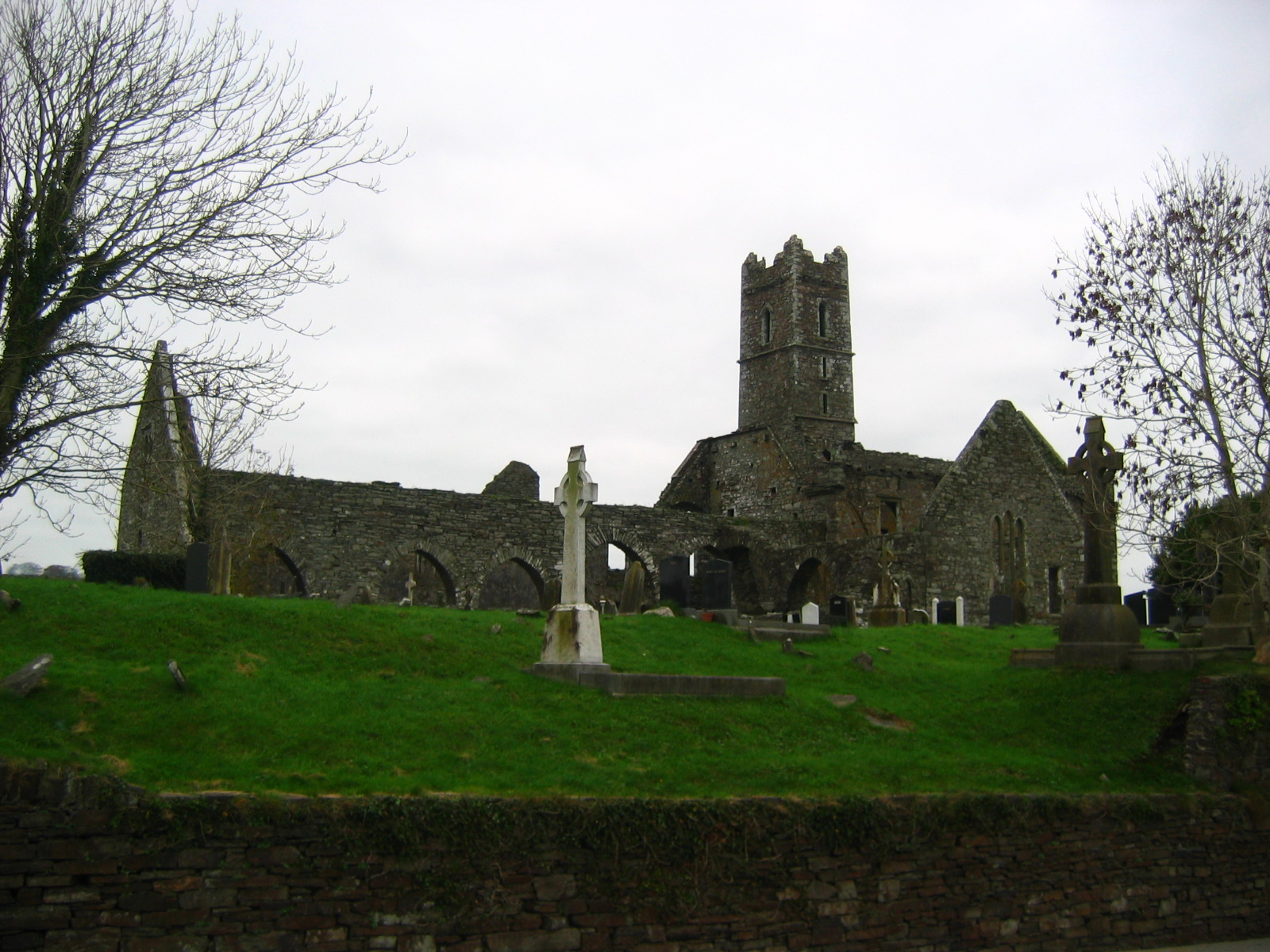 Timoleague Abbey, County Cork, Ireland